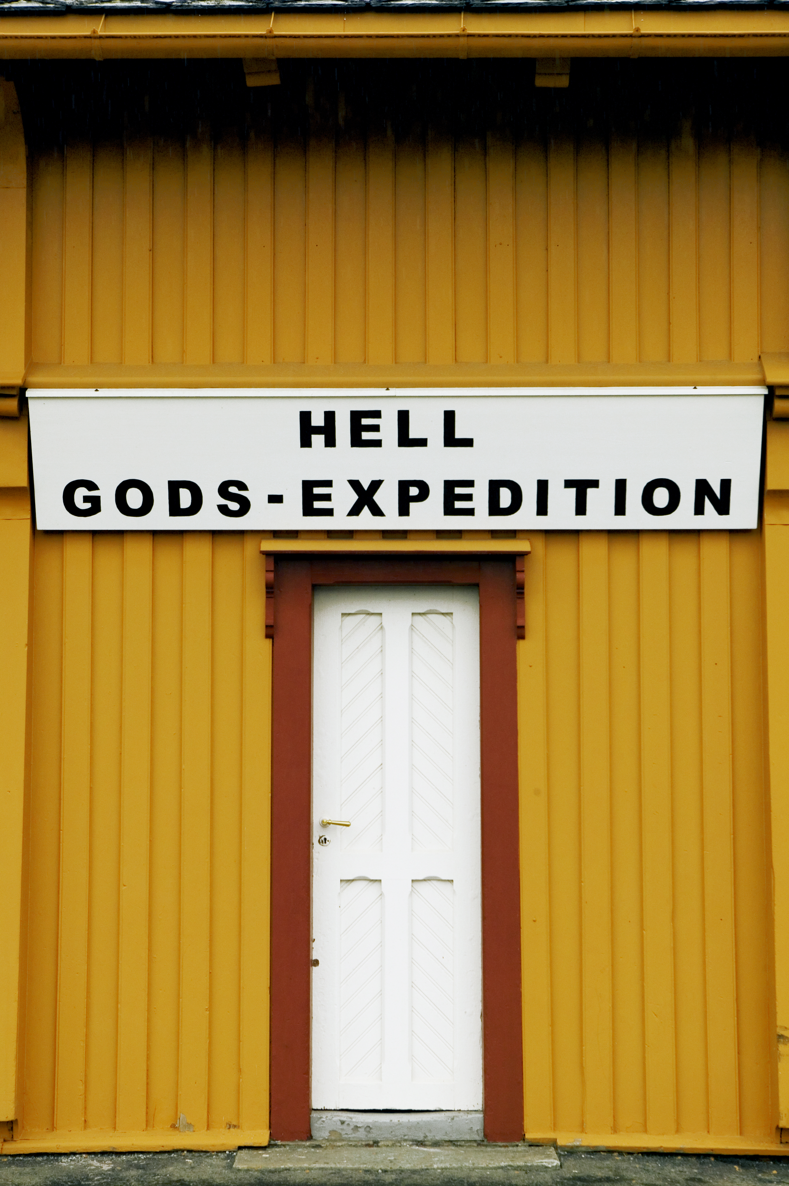 "God's expedition" Keywords: Humour, Signs, Language, Transport, Norway